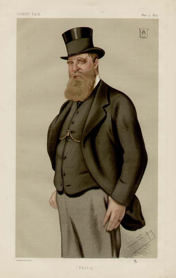 Statesmen No.304: Caricature of Sir PJW Miles MP. Caption reads: "Philip"